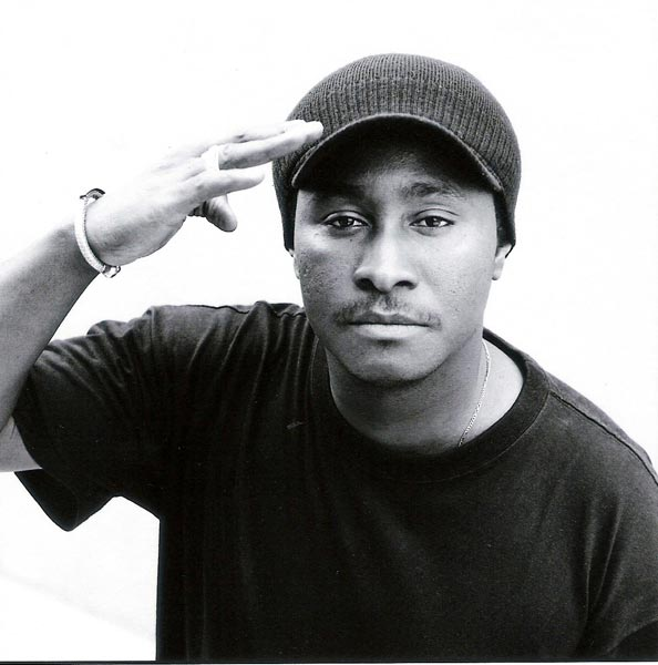 The Senegalises Hip hop artist Didier Awadi, B&W